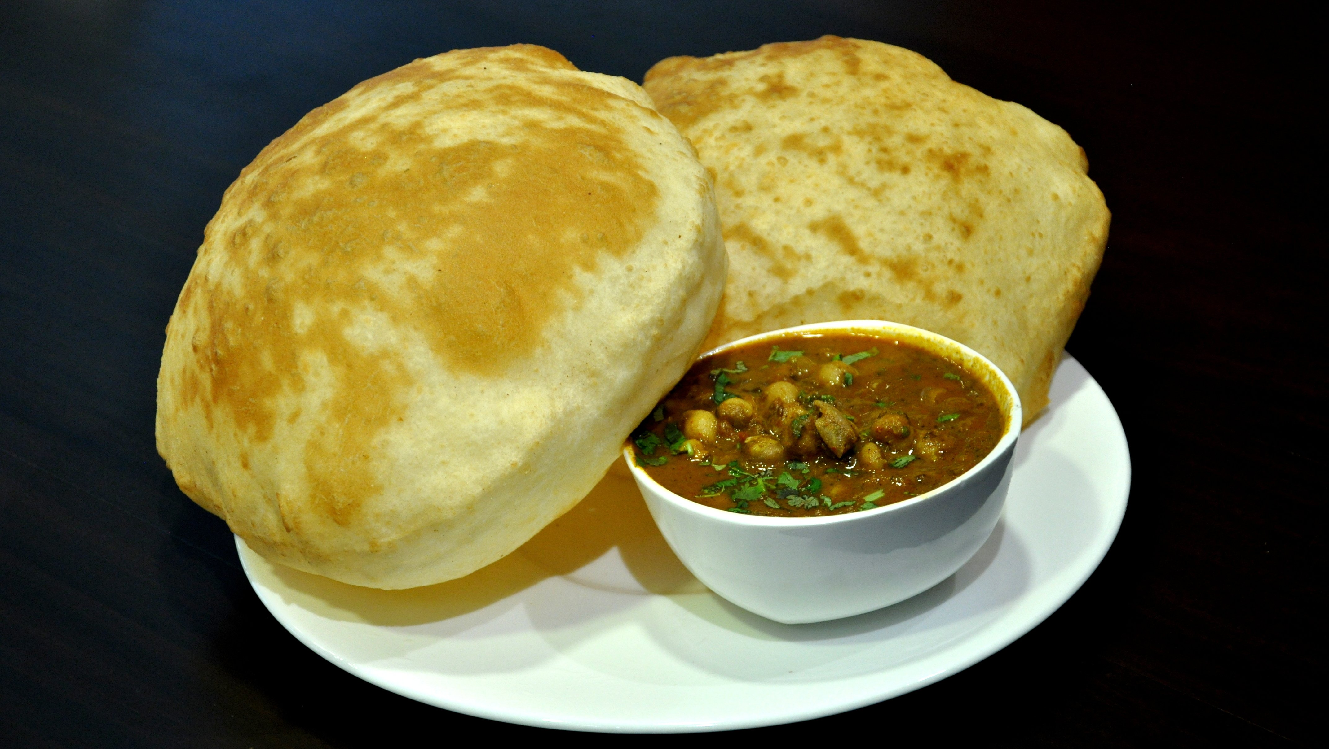 {Wiki Loves Food 2015 }